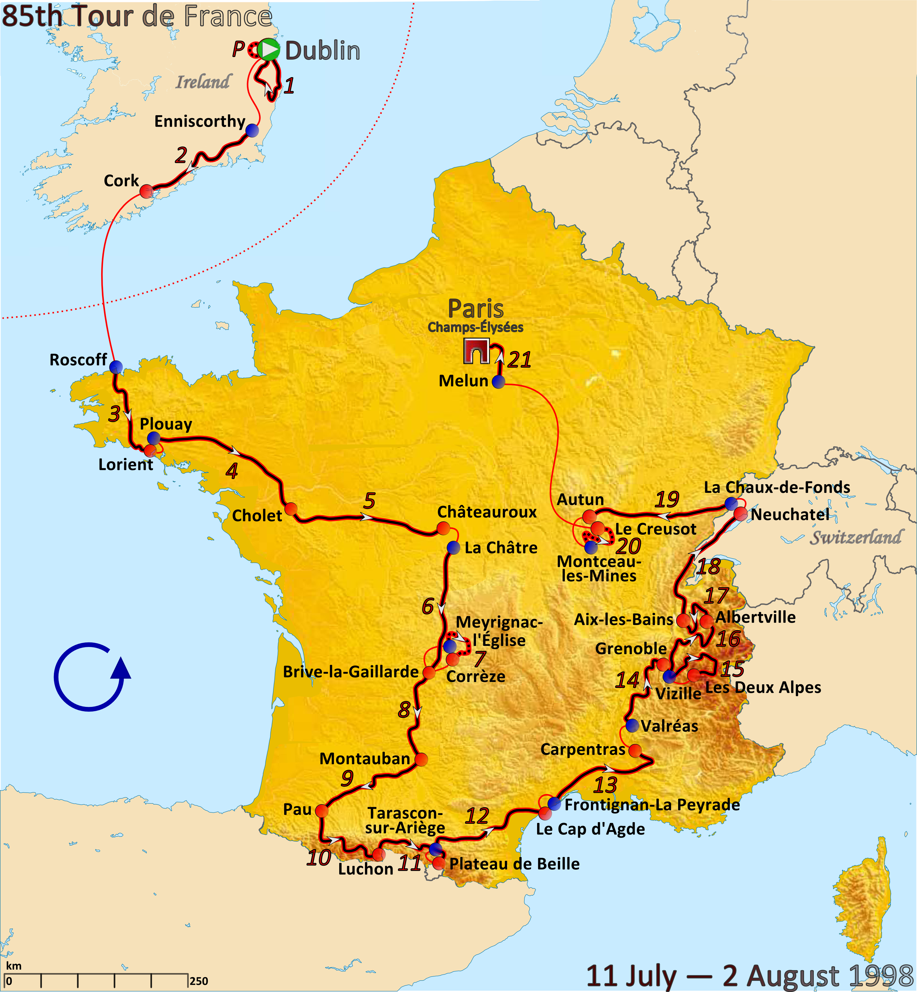 Map of the 1998 Tour de France created in Inkscape